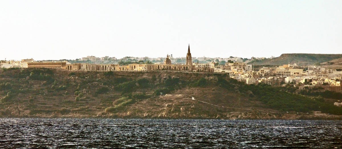 Fort Chambray on Gozo seen from Marfa, Malta